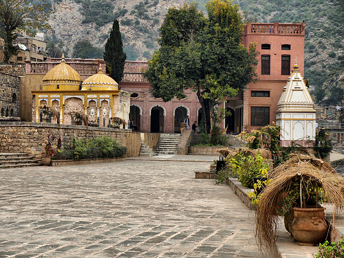 Saidpur, Islamabad CT